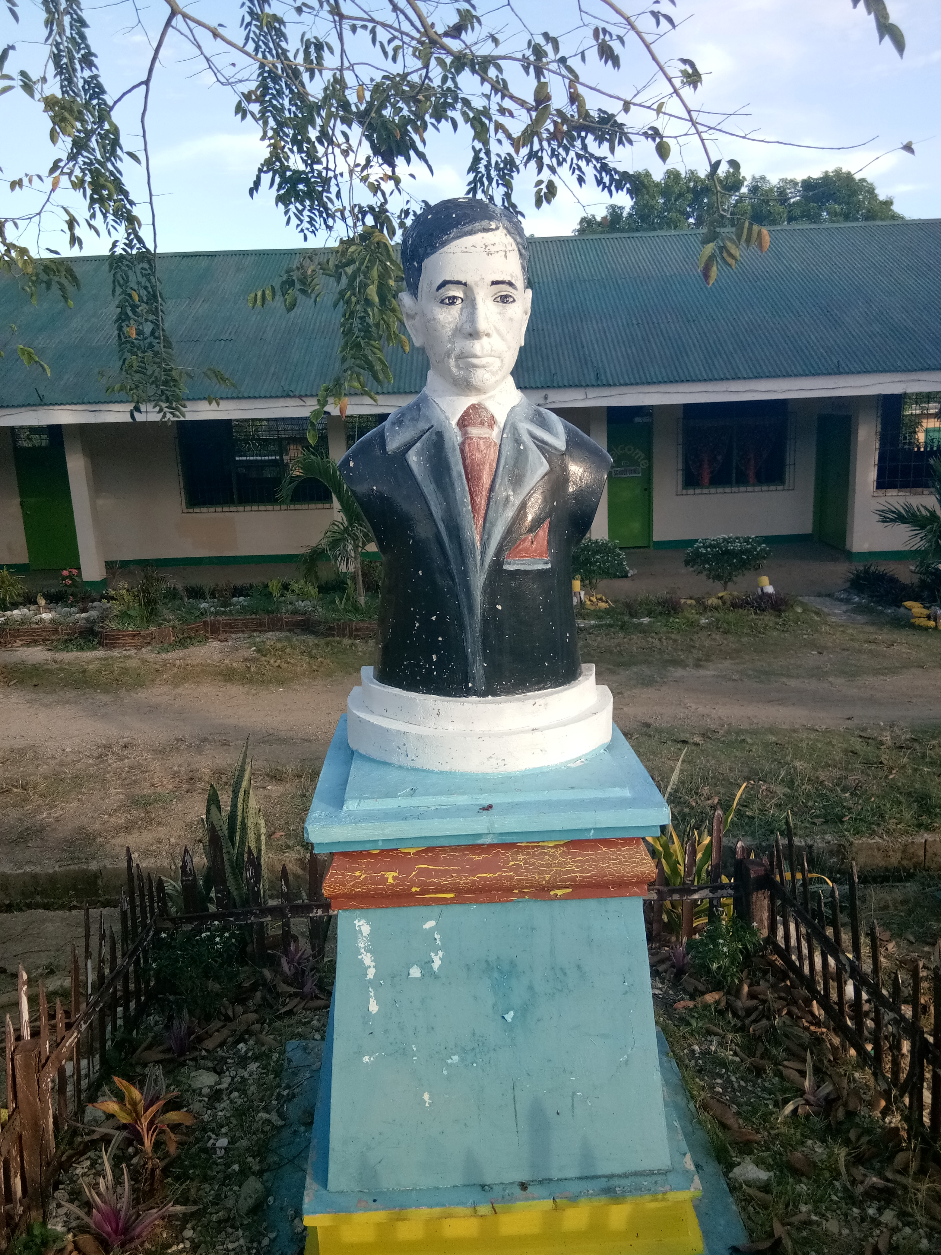 Statue of Don Casimiro Andrada